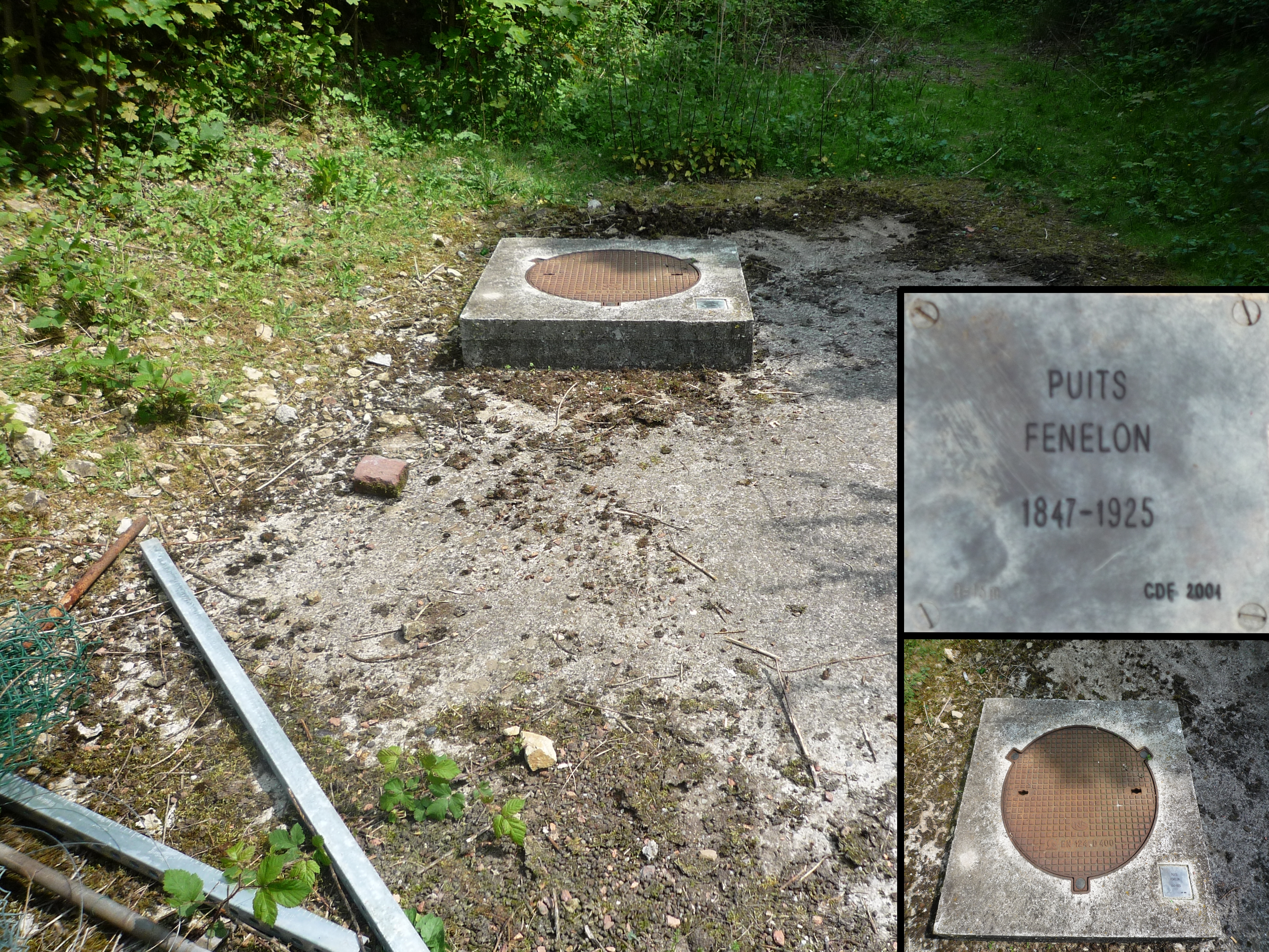 Pit Fénelon at Aniche and Somain, France.